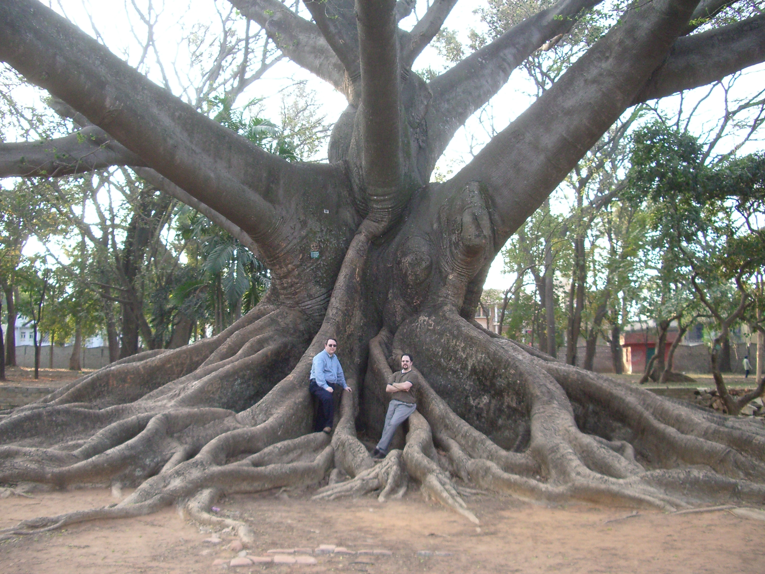 Very Large Cotton-Silk Kapok in Lal Bagh gardens in Bangalore (Bangaluru), India